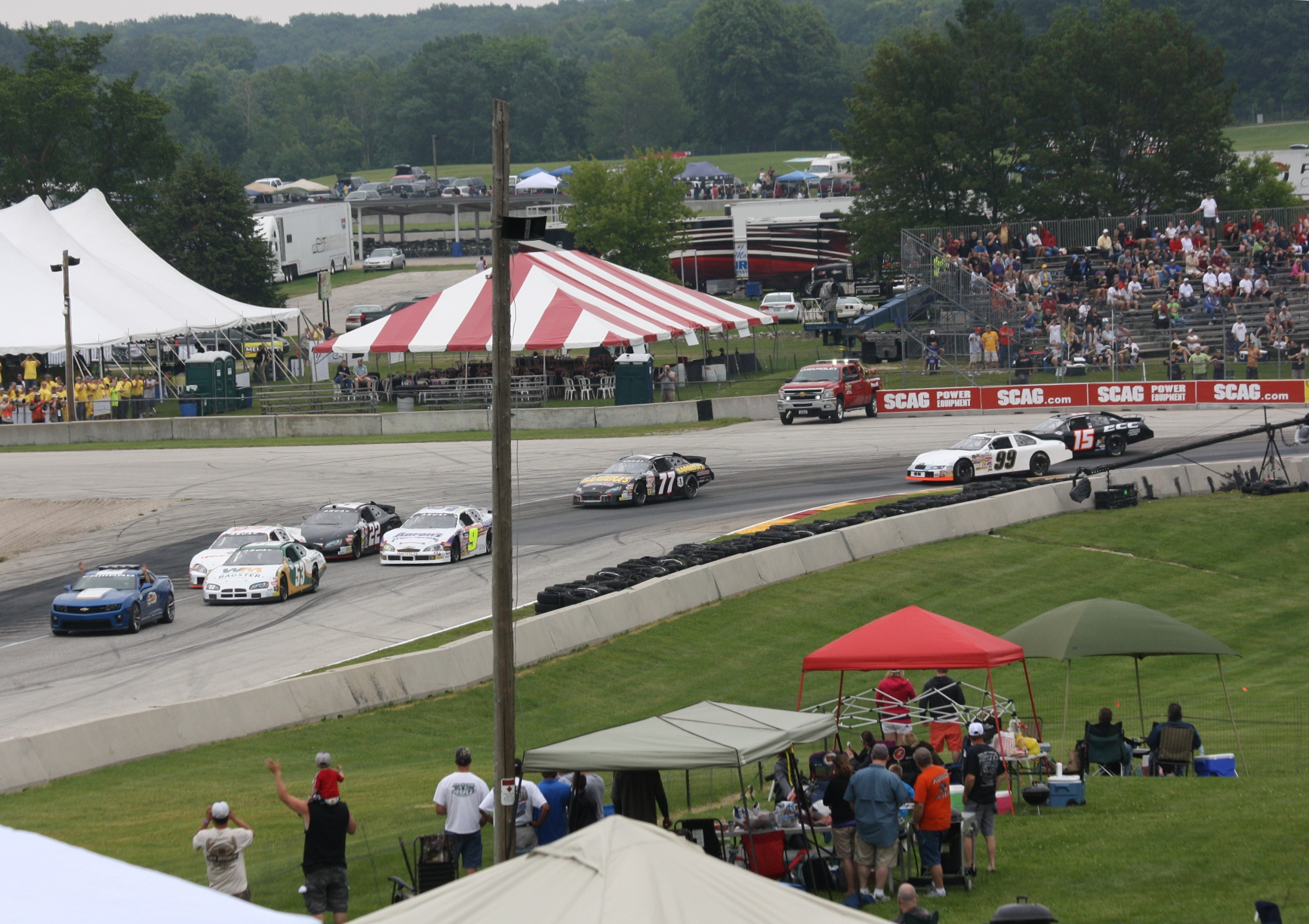 The starting field of ARCA cars for the Scott 160 race at Road America.